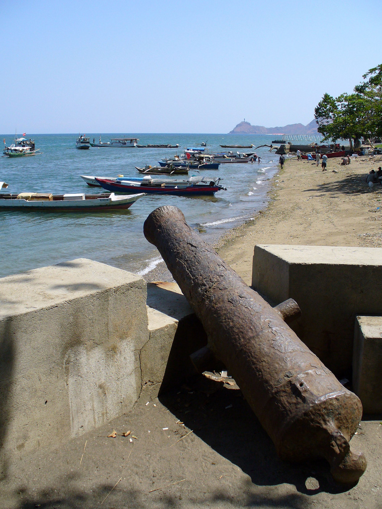 Old Portuguese canon at Dili harbor